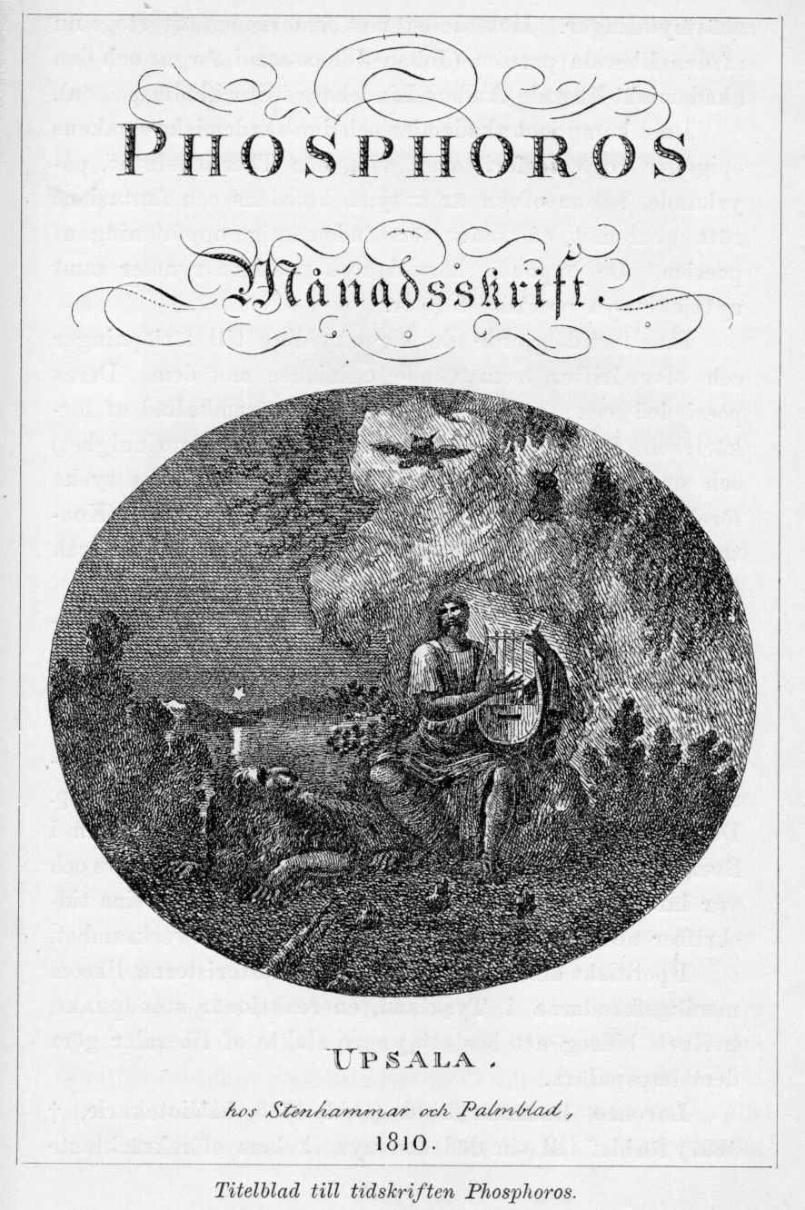 Title page of the first edition of Phosphoros (a Swedish magazine)